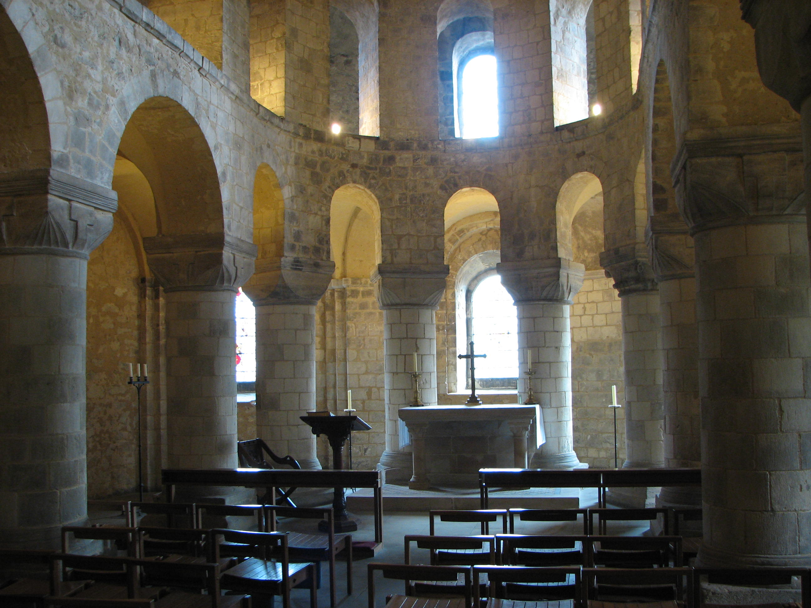 St John's Chapel inside the White Tower at the Tower of London, England.